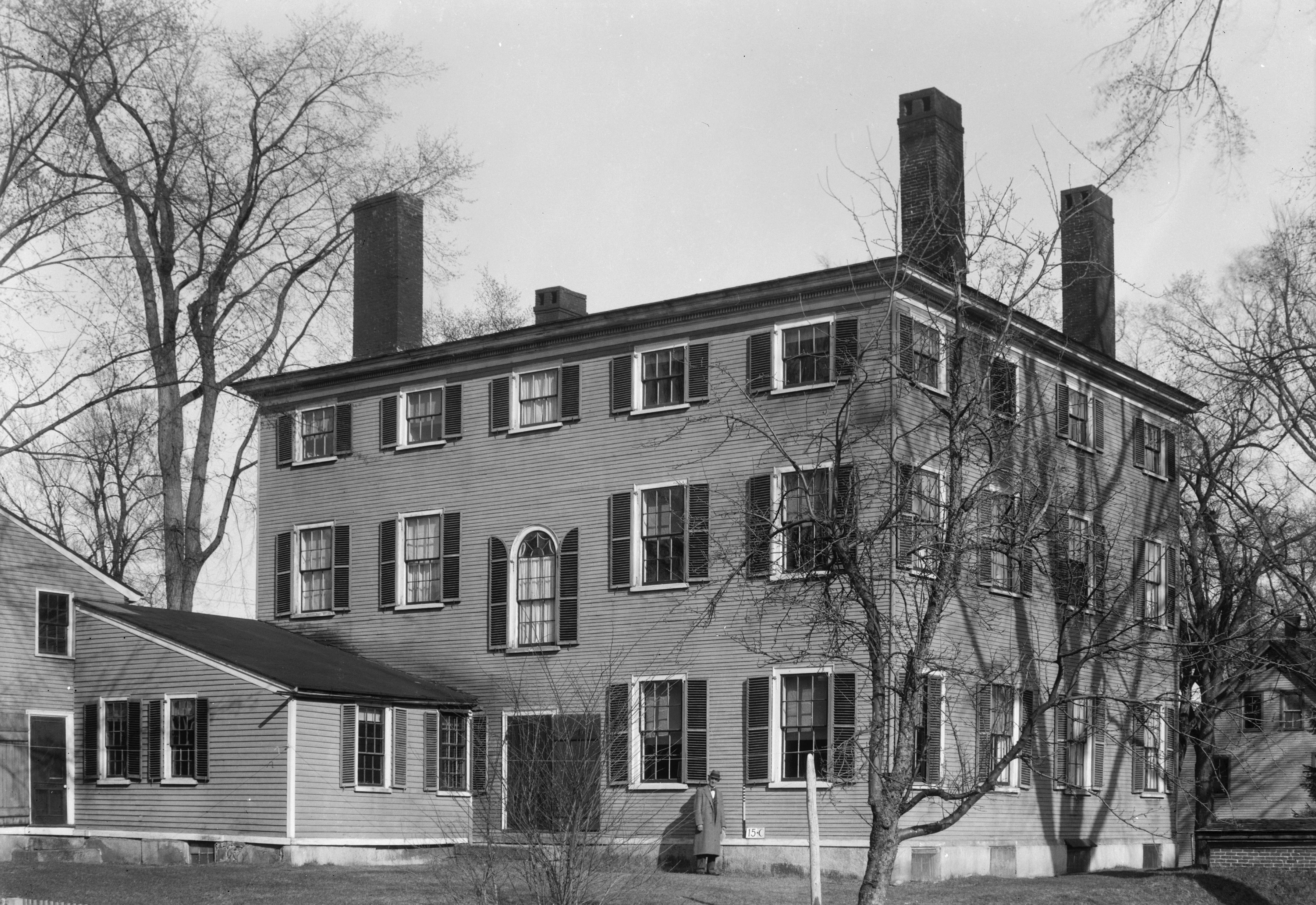 Rear of the Bourne Mansion, located at 8 Bourne Street in Kennebunk, Maine, United States. Built in 1812, it is listed on the National Register of Historic Places.